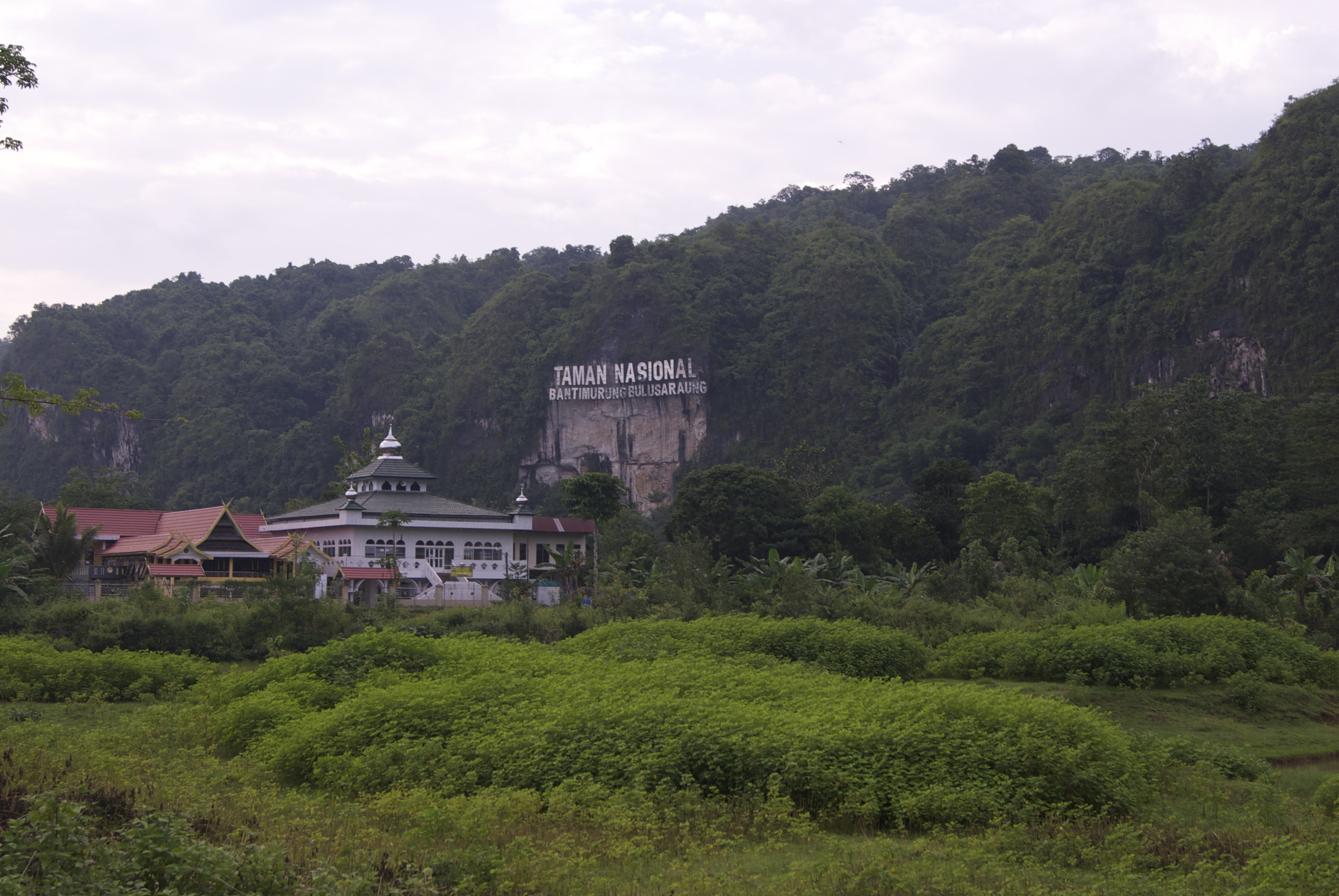 Bantimurung National Park